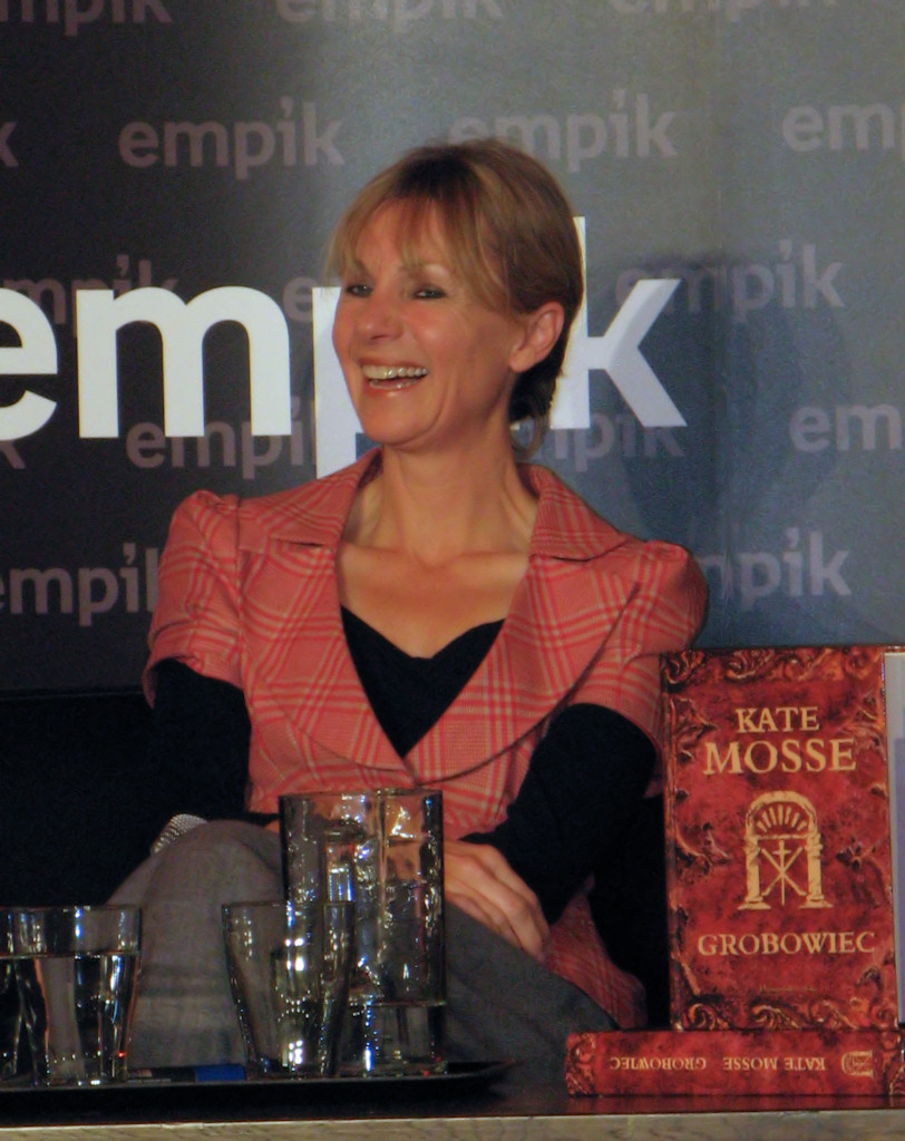 Kate Mosse - English author and broadcaster